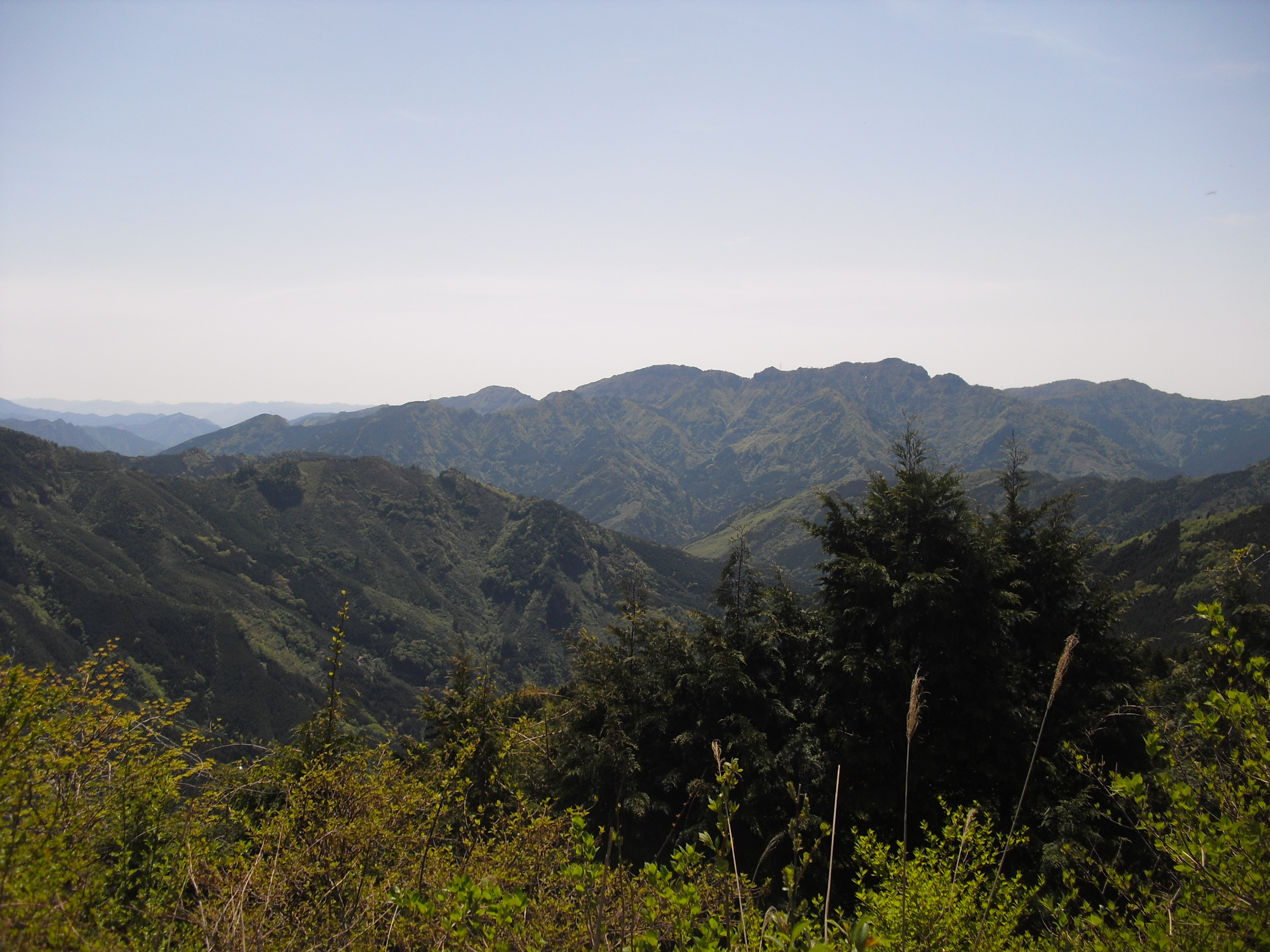 Mount Inamura (Inamura-yama) as seen from the WNW.